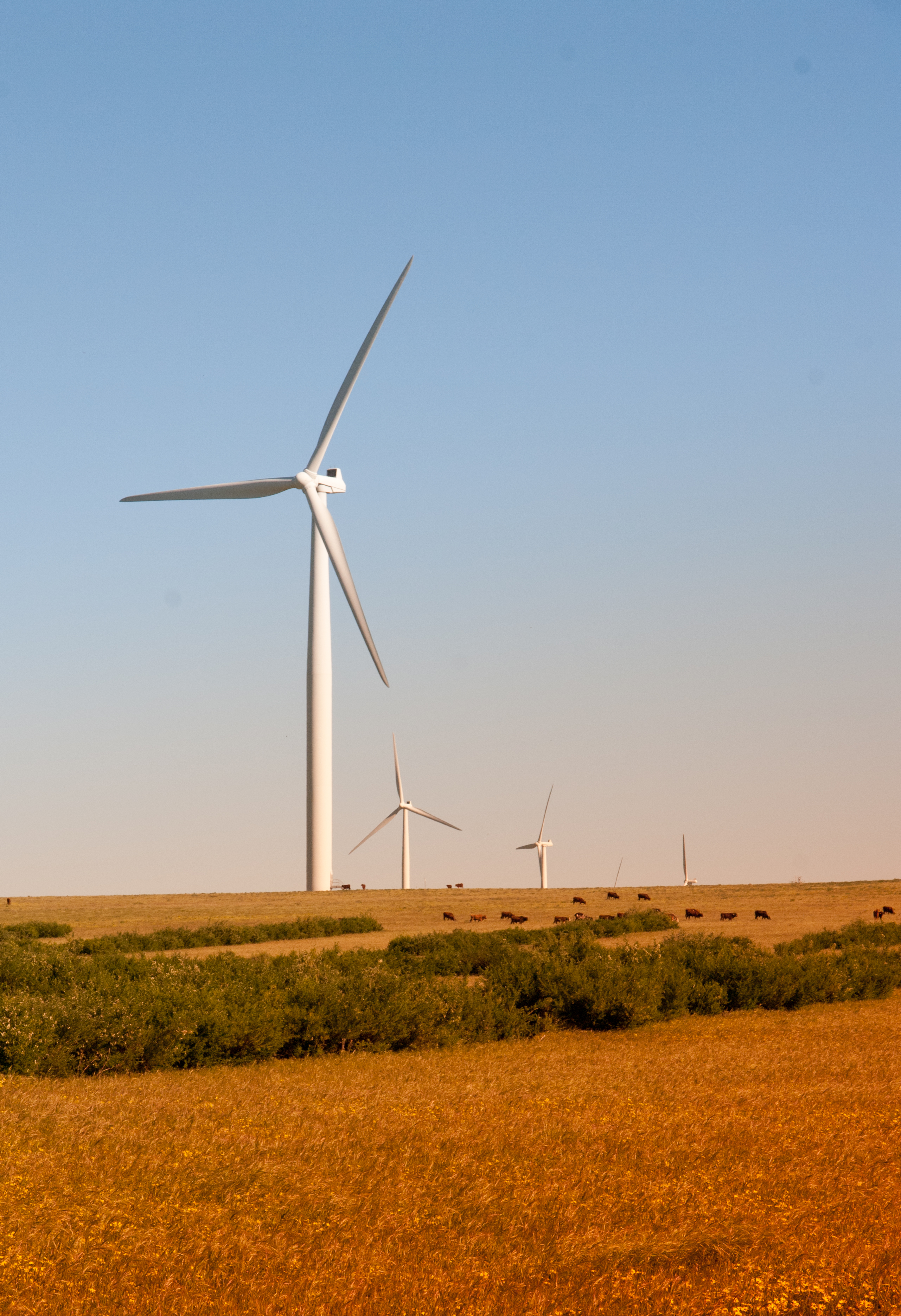 Object location 30° 27′ 17.73″ S, 115° 18′ 51.49″ E This and other images at their locations on: Google Maps - Google Earth - OpenStreetMap - Proximityrama(Info) Emu Downs Wind farm